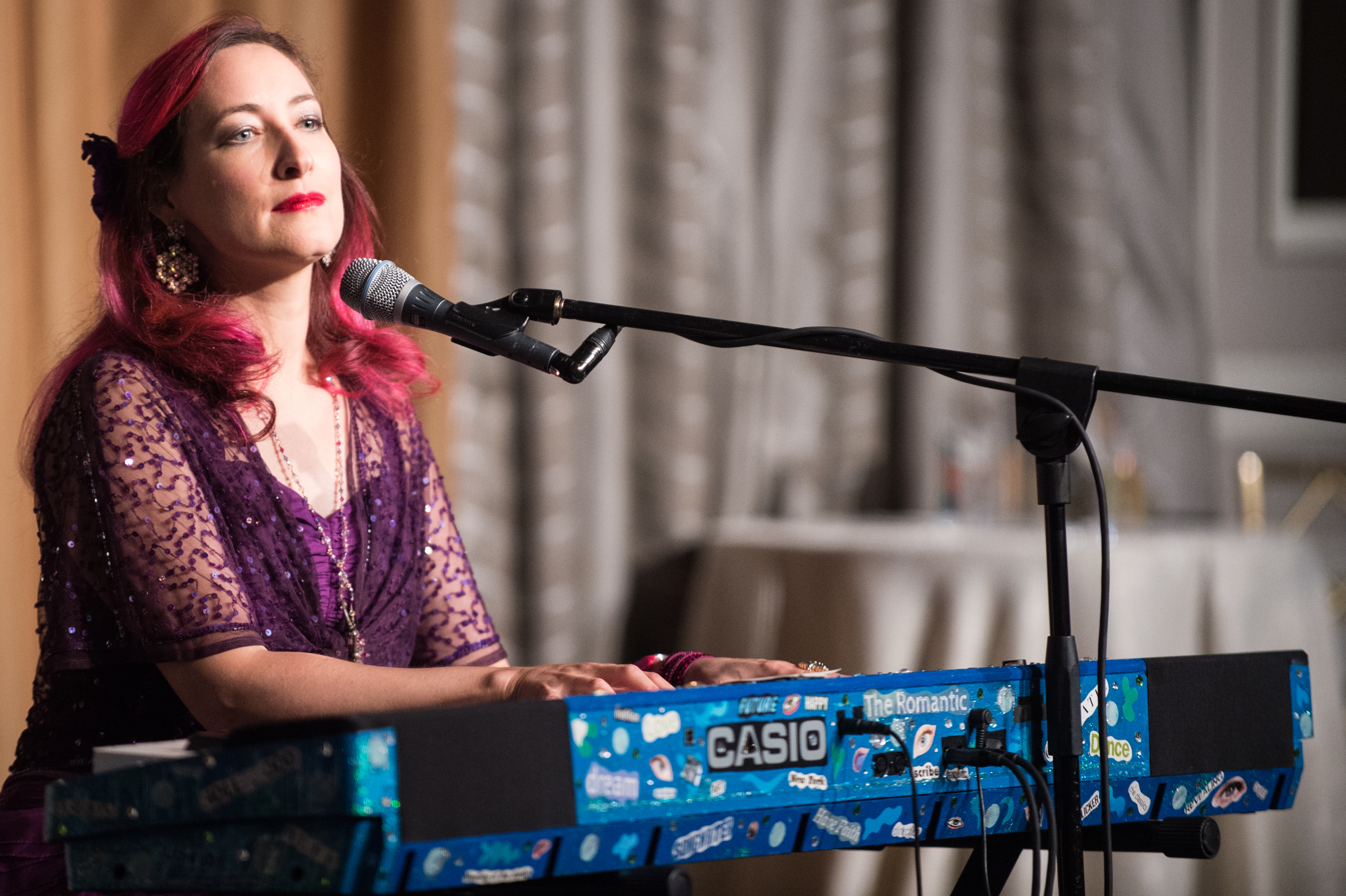 Rachael Sage performs ‘God Bless America’ during the Roots of Resilience Gala, hosted by Tuesday’s Children in New York City, Sept. 08, 2016. U.S. Marine Corps Gen. Joseph F. Dunford Jr., Chairman of the Joint Chiefs of Staff, accepted the Hero award on behalf of the men and women of the armed forces. Tuesday’s Children was founded to promote long-term healing for those directly impacted by the events of Sept. 11, 2001 but now support communities affected by acts of terror worldwide. (DoD Photo by U.S. Army Sgt. James K. McCann) Unit: Office of the Chairman of the Joint Chiefs of Staff DVIDS Tags: DoD; USMC; NYC; Chairman; JCS; Joseph F. Dunford; Joint Staff; CJCS; Joint Chiefs of Staff; Gala; God Bless America; OCJCS; Office of the Chairman of the Joint Chiefs of Staff; Hero award; Roots of Resilience; Tuesday's Children; Rachael Sage